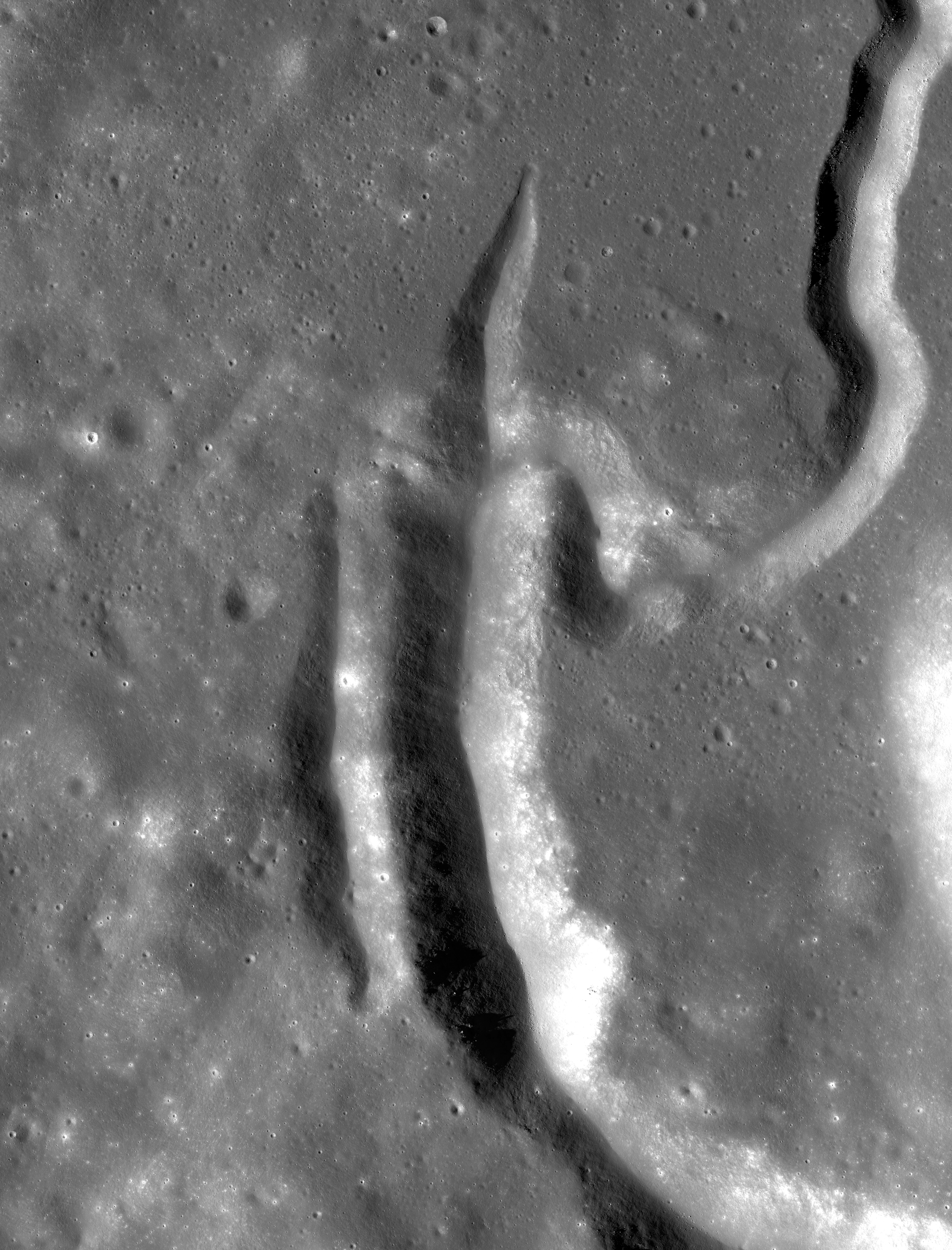 Several small depressions on the Moon, in eastern Mare Imbrium (a map). Biggest depression in the center is Béla, parallel one in the left — Taizo, pointed one at the top of Béla — Carlos; in the bottom right part of Jomo is seen. Sinuous depression in the upper right is Rima Hadley. The image is centered at 24.76°N, 2.29°E. Photo by Lunar Reconnaissance Orbiter, made with Narrow Angle Camera 10 August 2009 from altitude 146 km. Sun elevation is 32.6°.Size of the photo is 14,5×19 km, north is up.